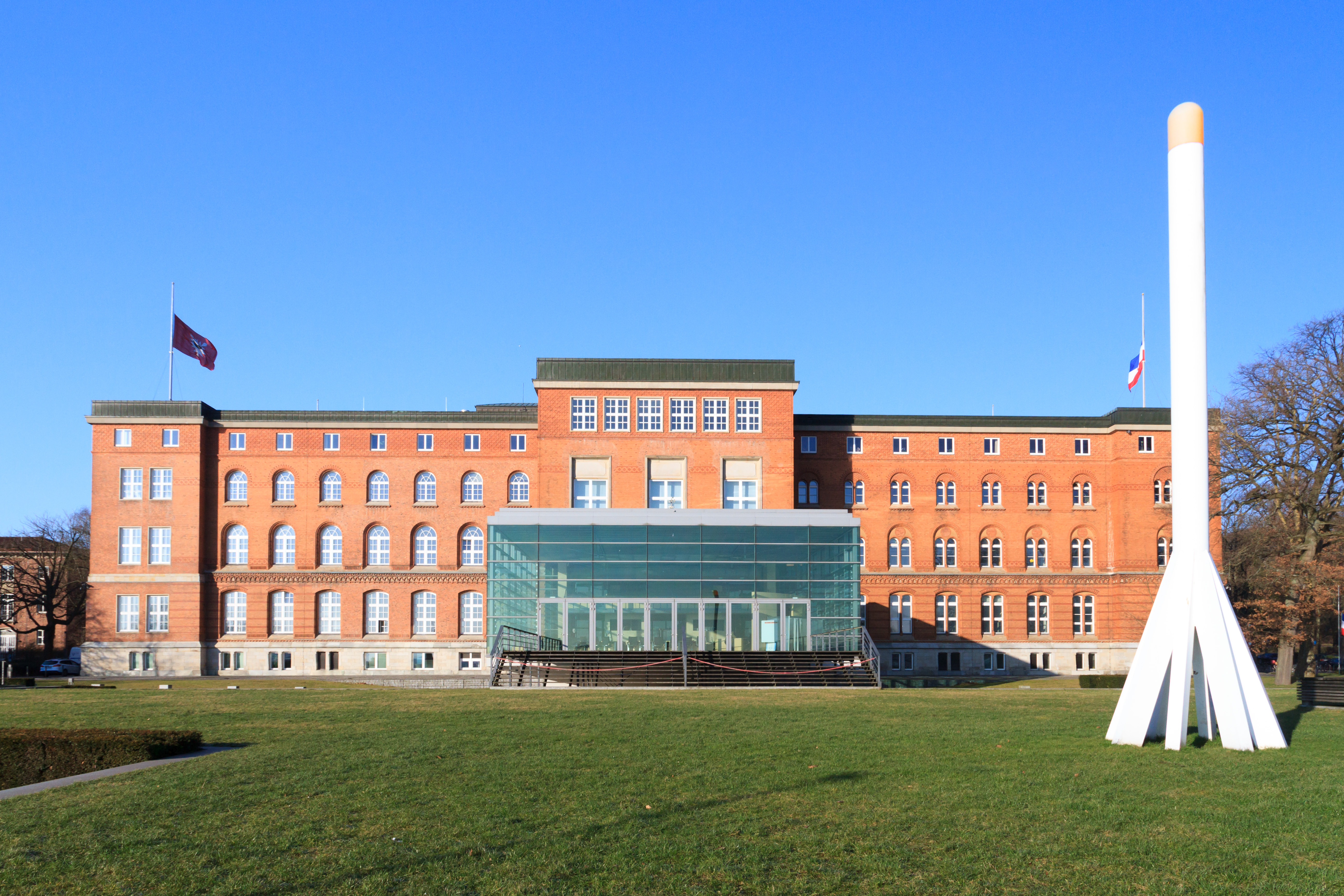 Image from the Kieler Förde, showing the building complex of the state government and state legislature of Schleswig-Holstein - the northern state of Germany. Kiel city and fjord, north Germany.